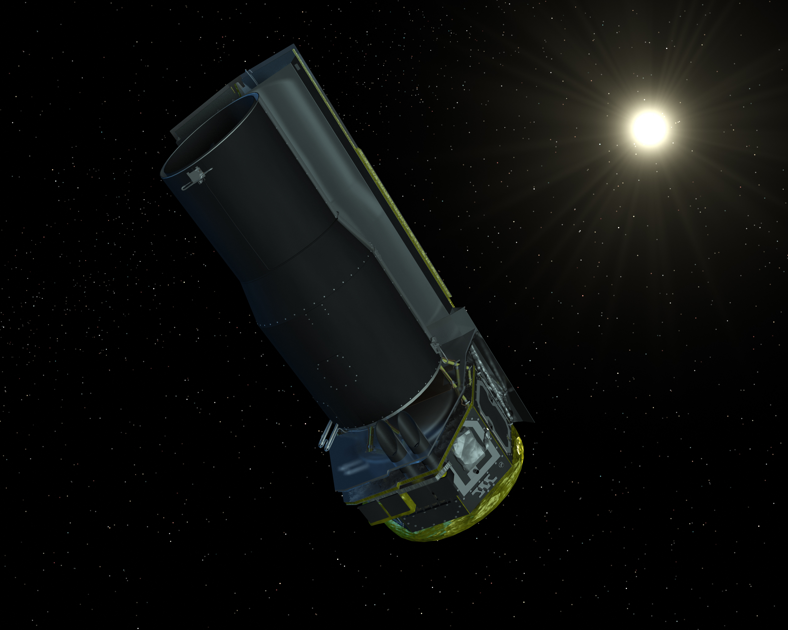 Spitzer gathering solar energy to power itself.